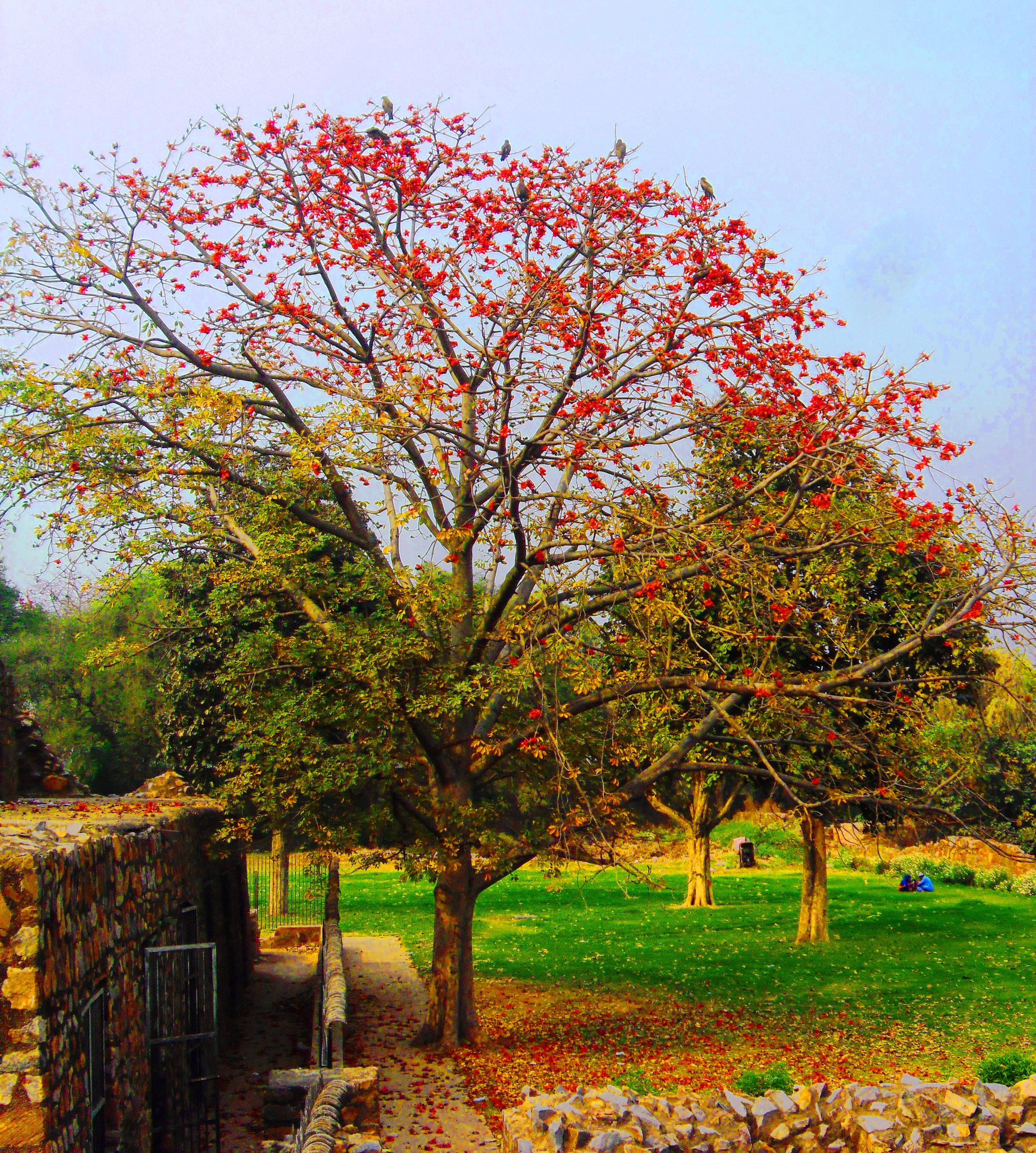 Bombax ceiba tree